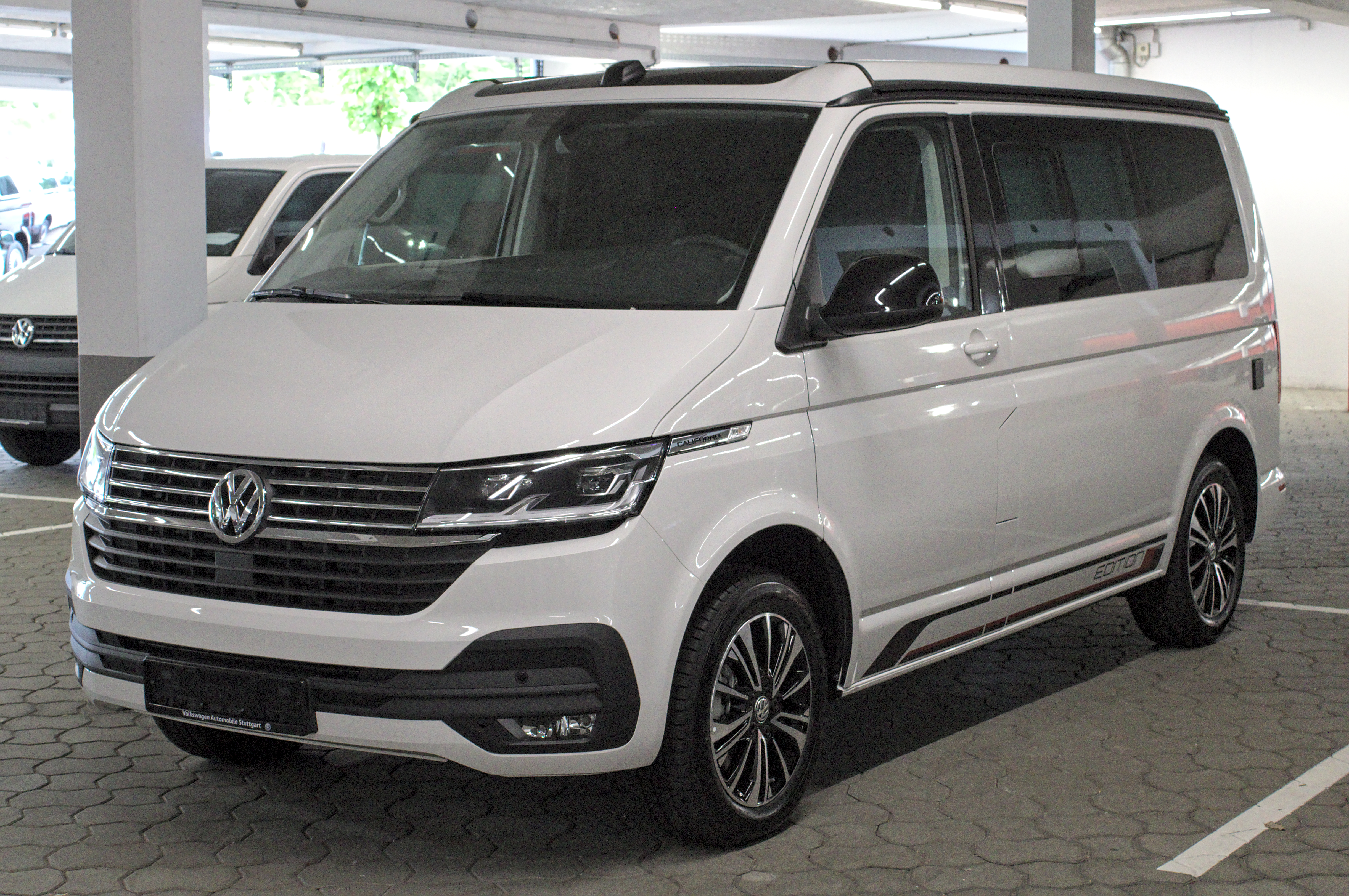 Volkswagen_California_(T6.1) in Stuttgart-Vaihingen